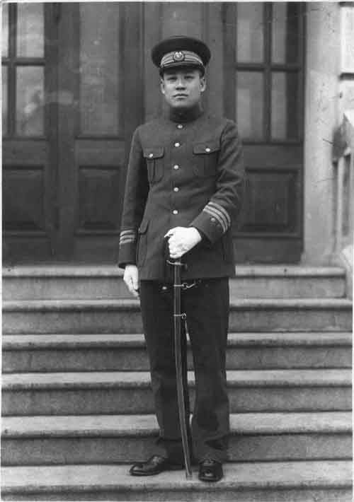 Jin Mingshi (1886－1964)